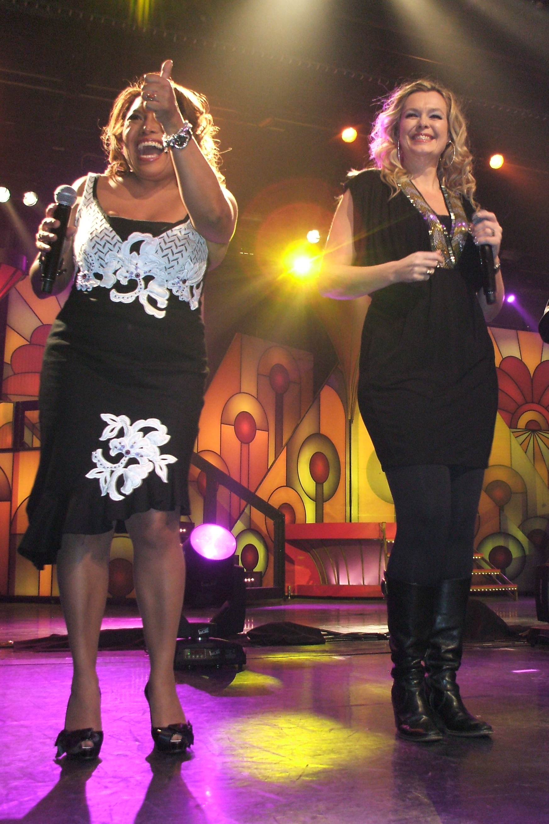 Pauzenummer tijdens het Nationaal Songfestival 2011 Justine Pelmelay & Esther Hart